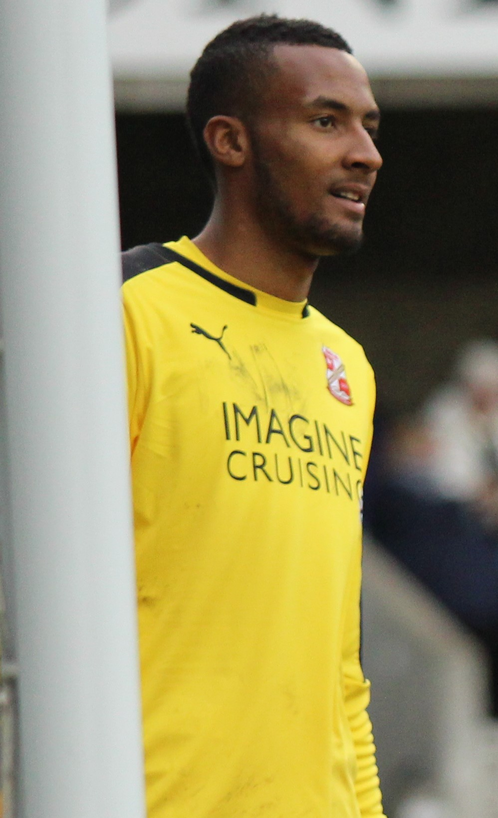 Aiden O'Brien of Millwall talks to Bradley Barry of Swindon Town.